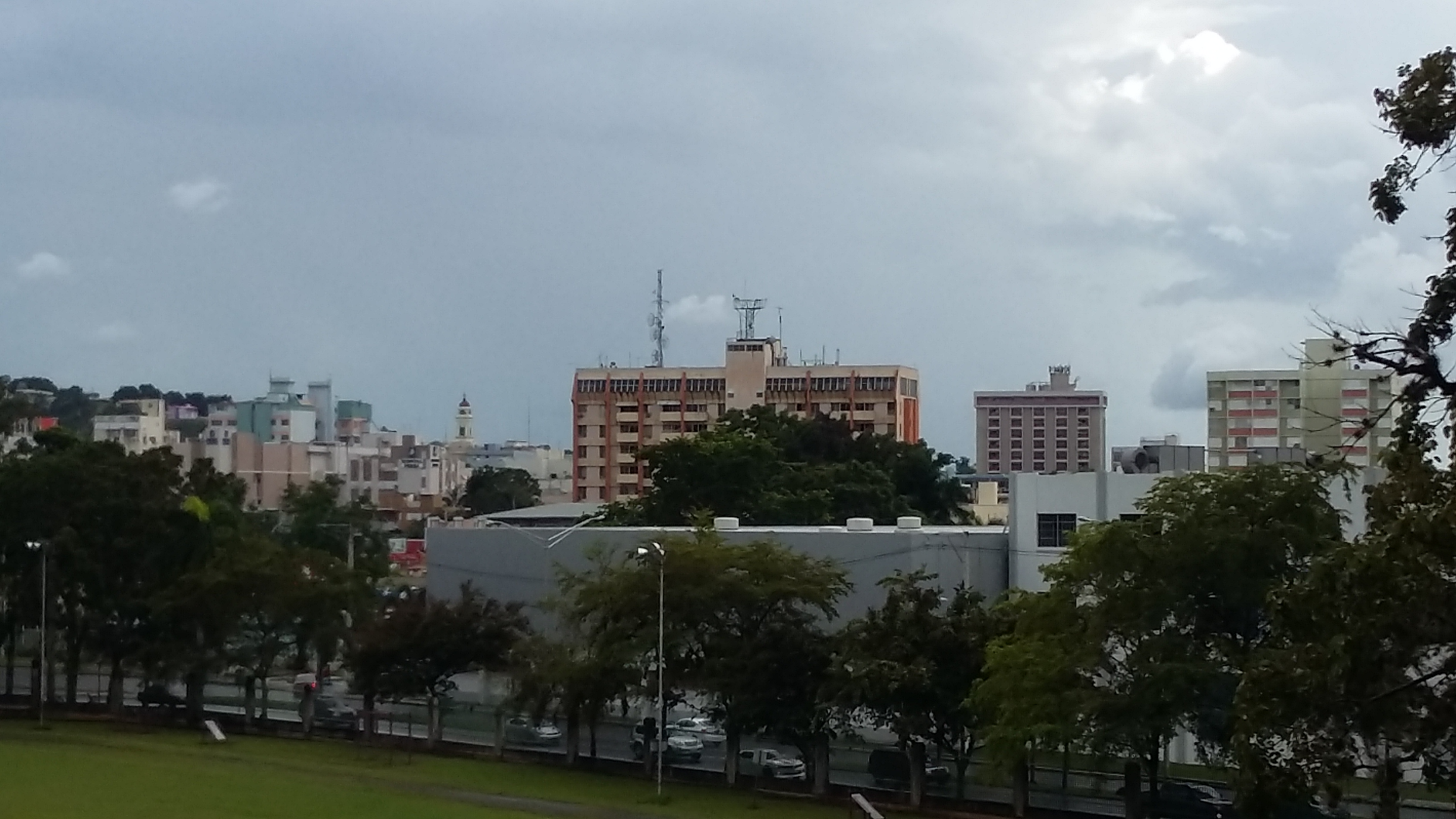 View from the east of city center